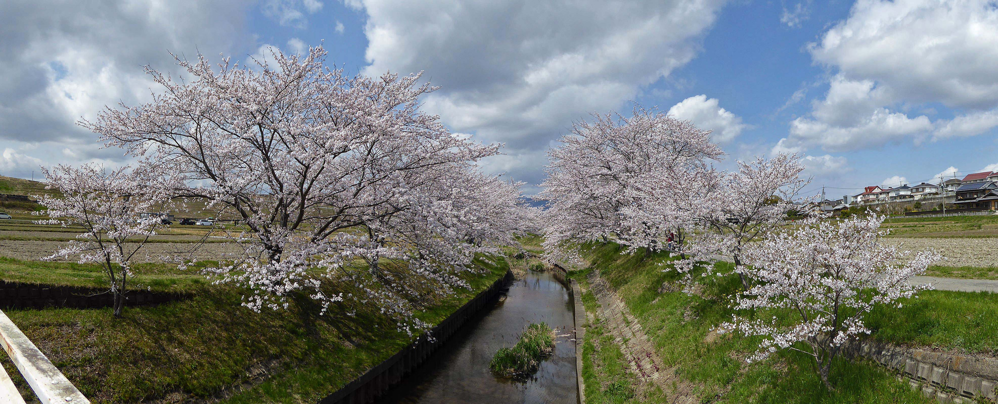 Thousand Sakura tree of Kabake river , 鹿化川 千本桜